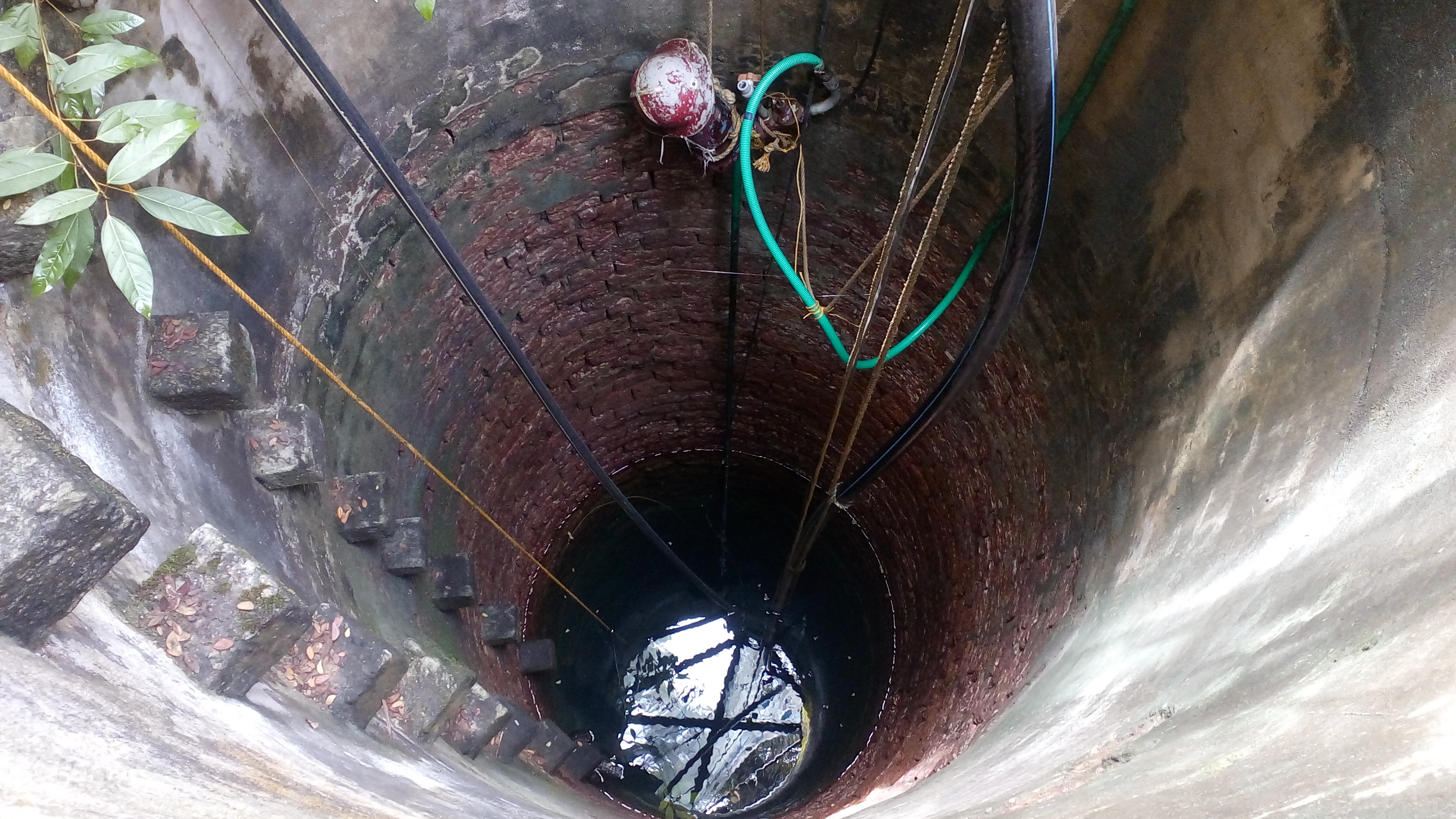 Wells are common drinking water source of people in Kerala